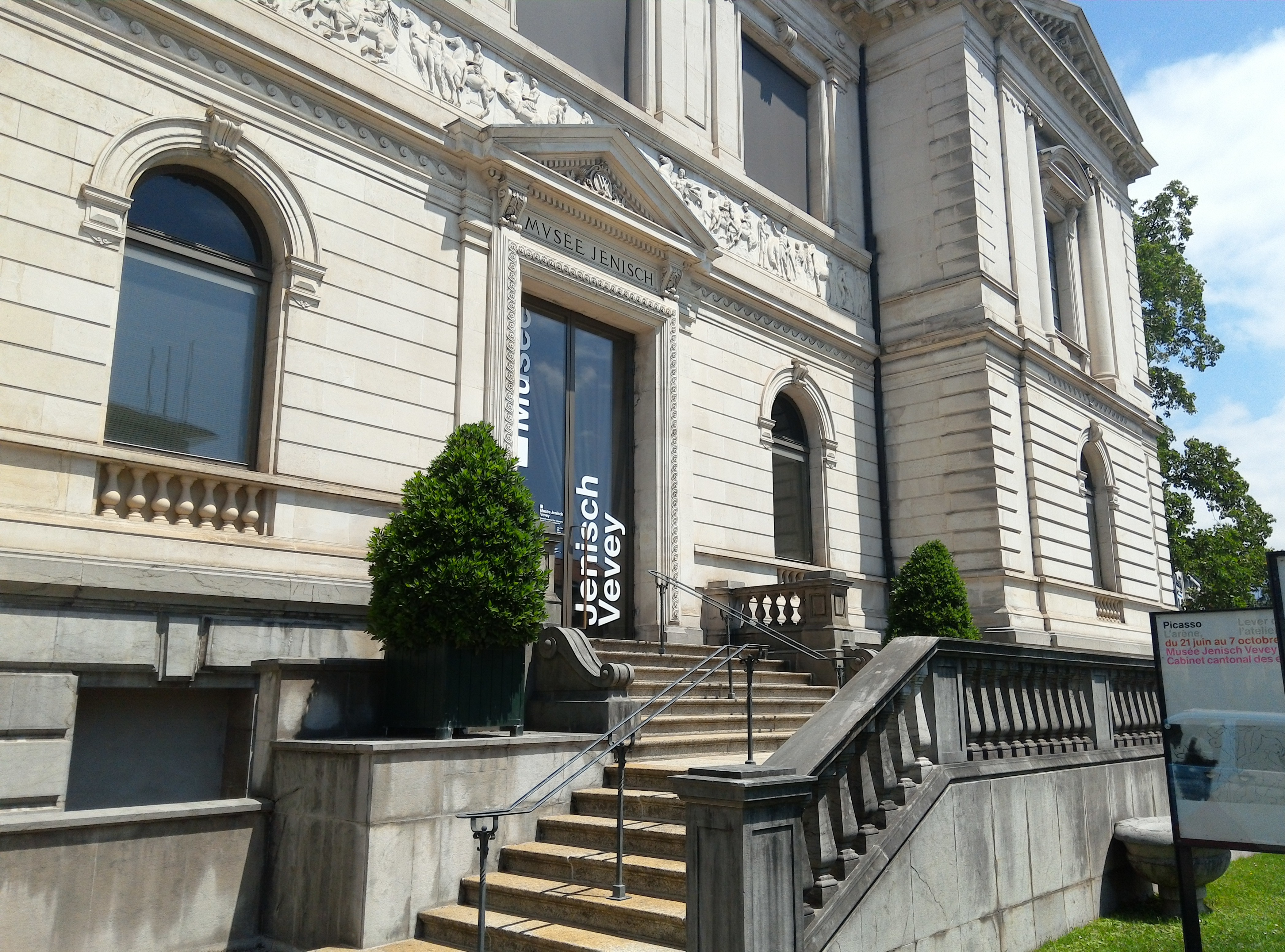 Musée Jenisch in Vevey, Switzerland